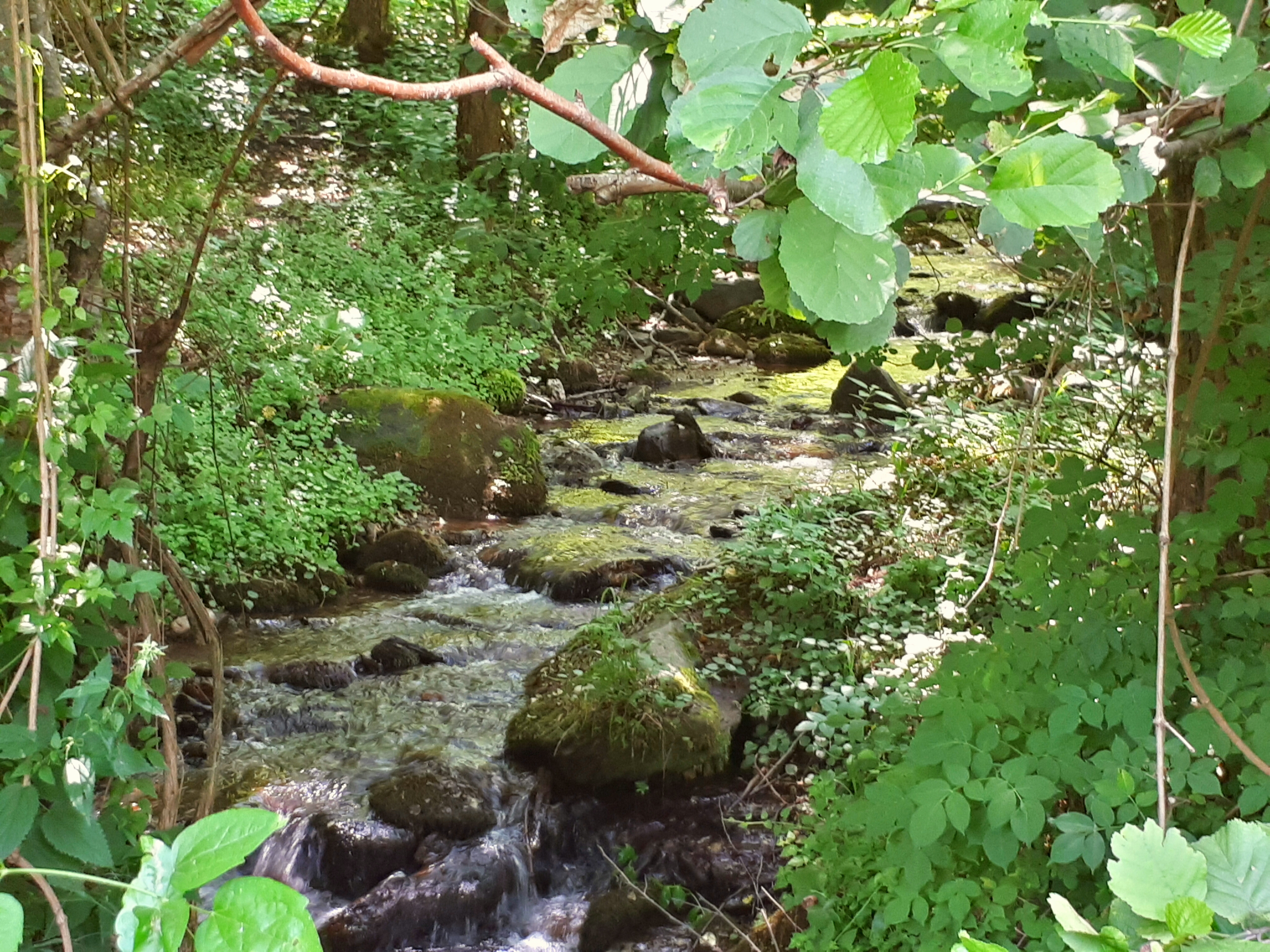 Small river near village Drenovo